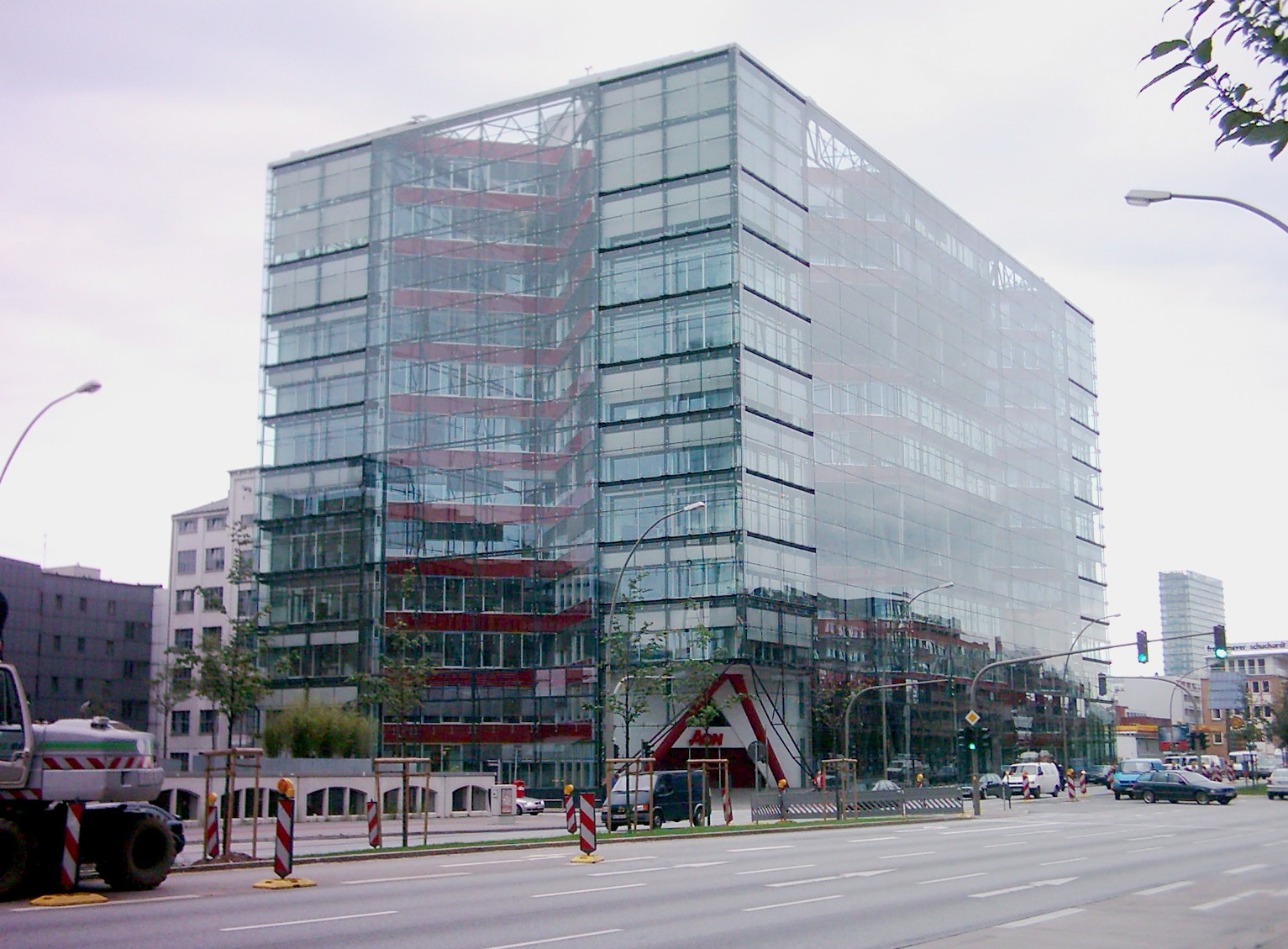 Aon building in Hamburg, Germany.